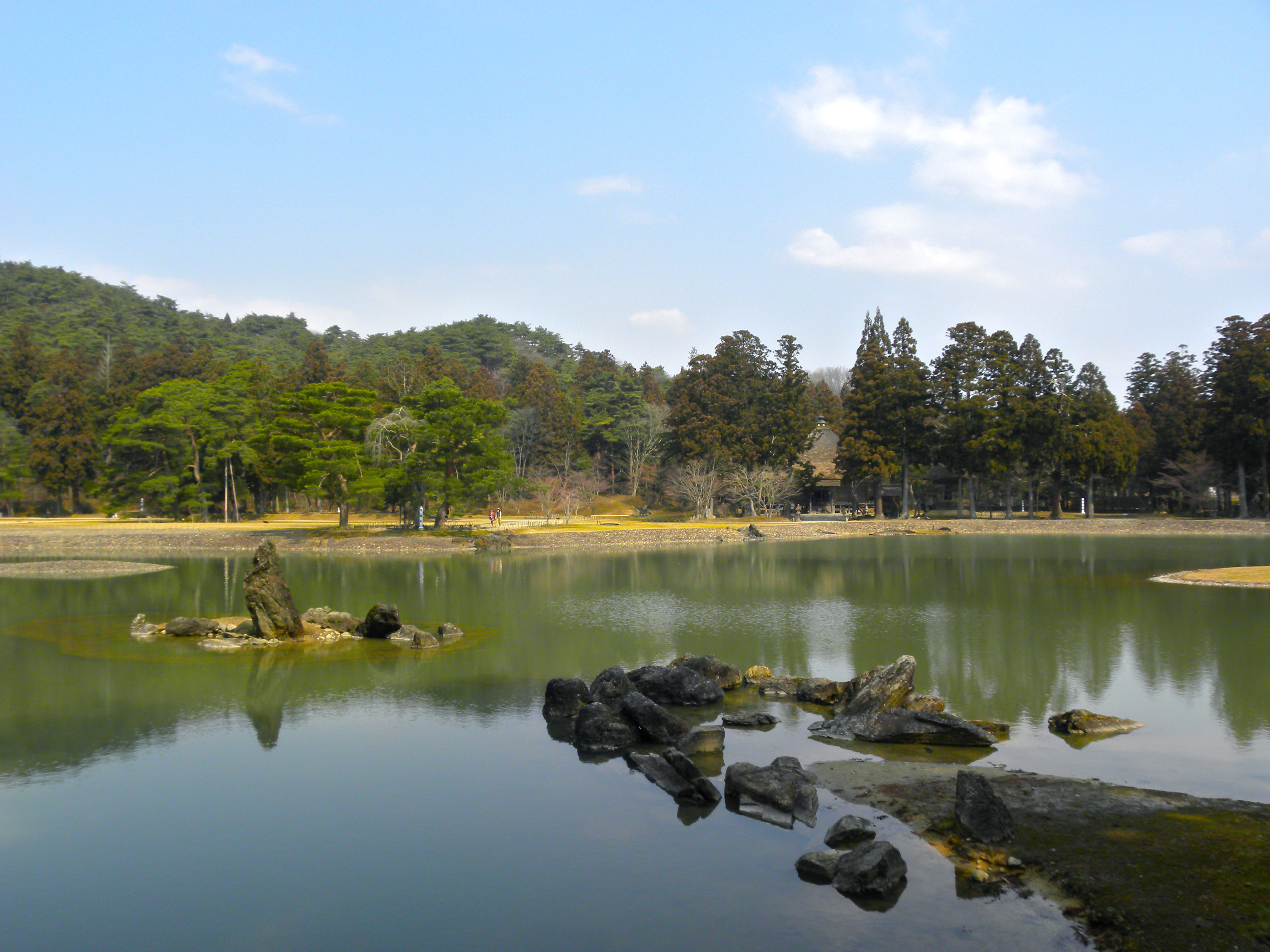 The pure land garden of Mōtsū-ji temple, Hiraizumi, Japan